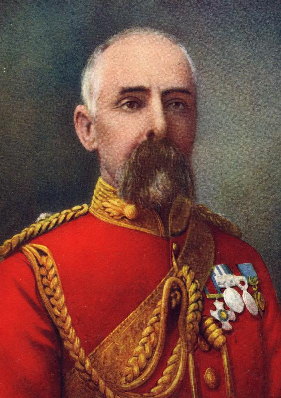 Image of Colonel Henry Parke Airey